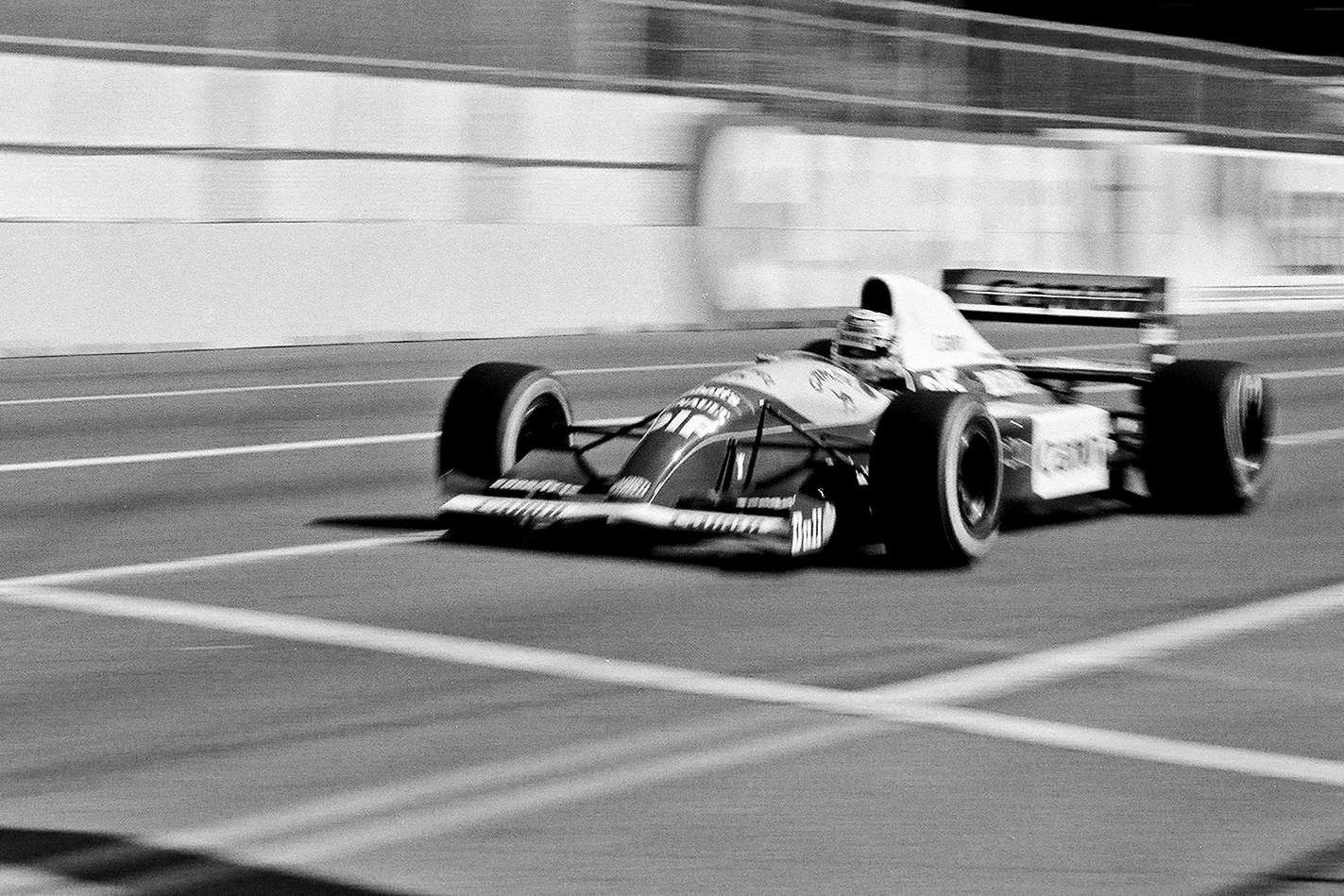 Nigel Mansell driving for WilliamsF1 at the 1991 United States Grand Prix.